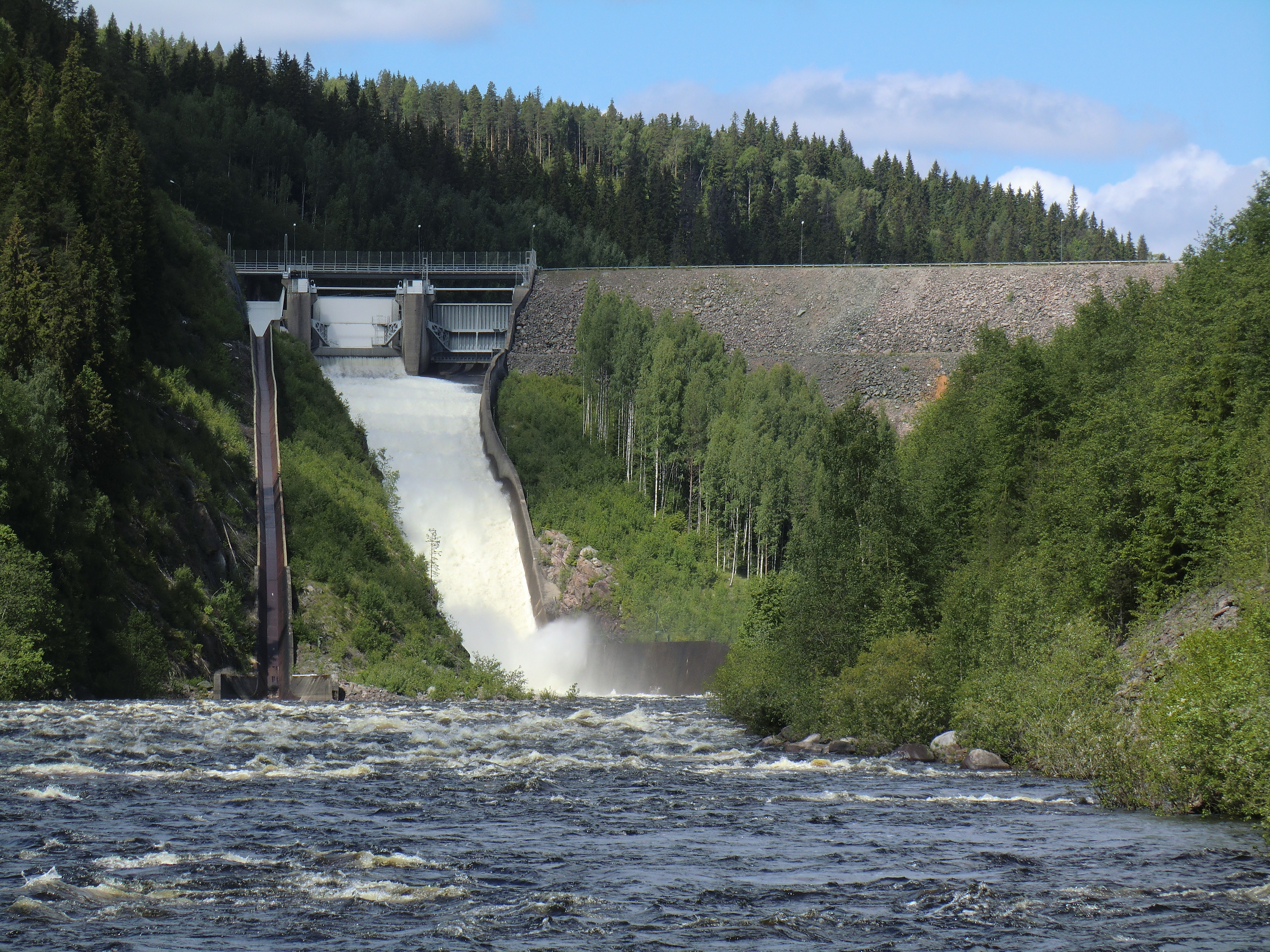 The Höljesdam and the river Klarälven in Värmland, Sweden.